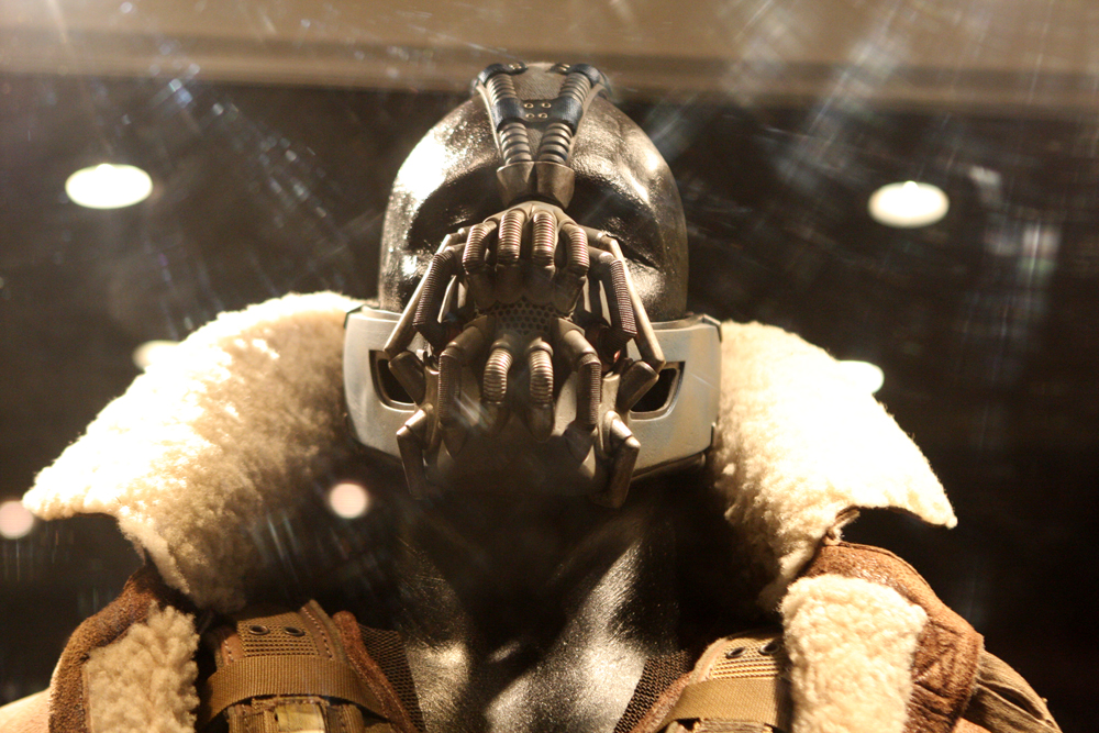 Mannequin of Batman's antagonist Bane at The Dark Knight Rises premiere in Sydney.